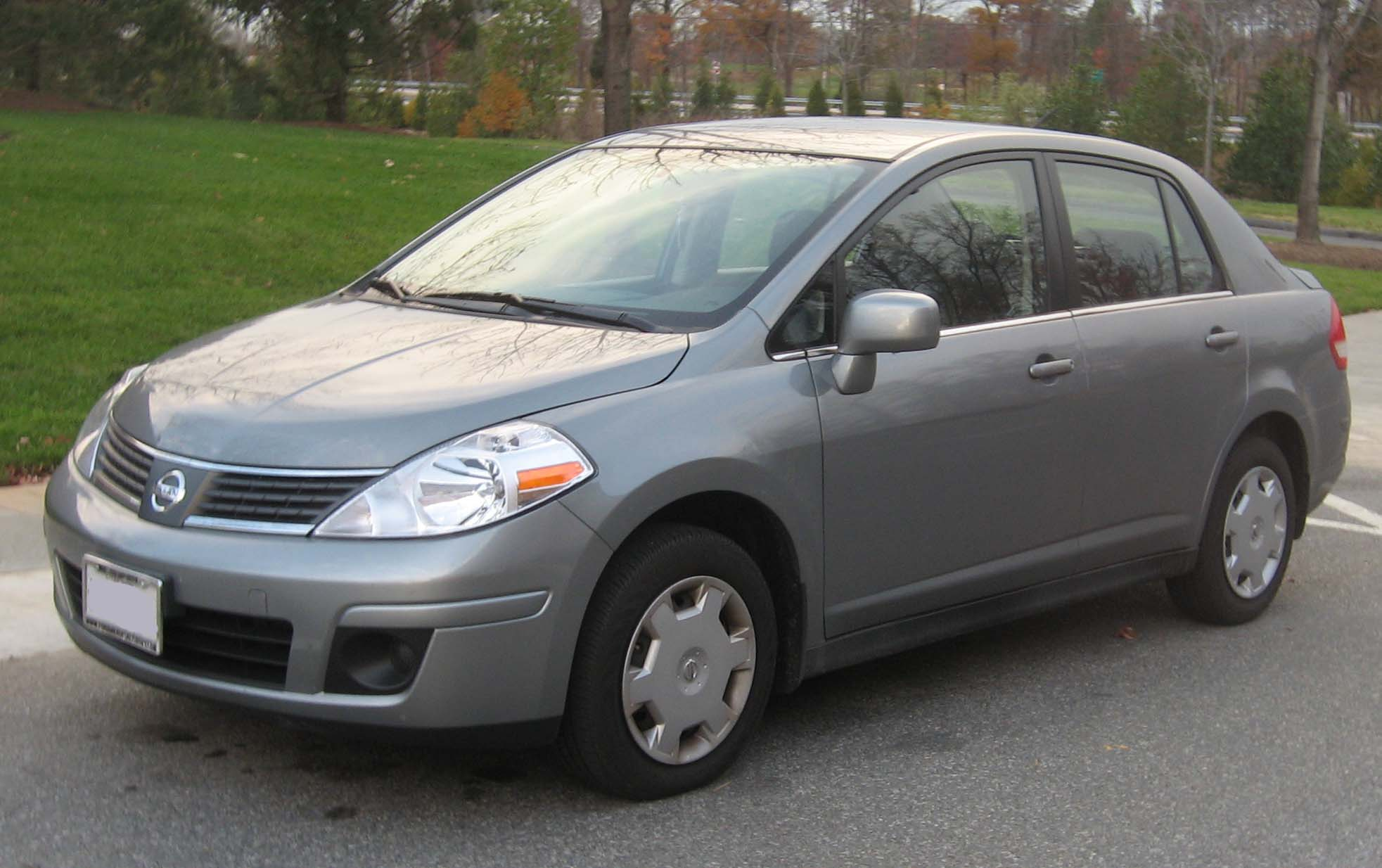 2007-2008 Nissan Versa photographed in College Park, Maryland, USA.